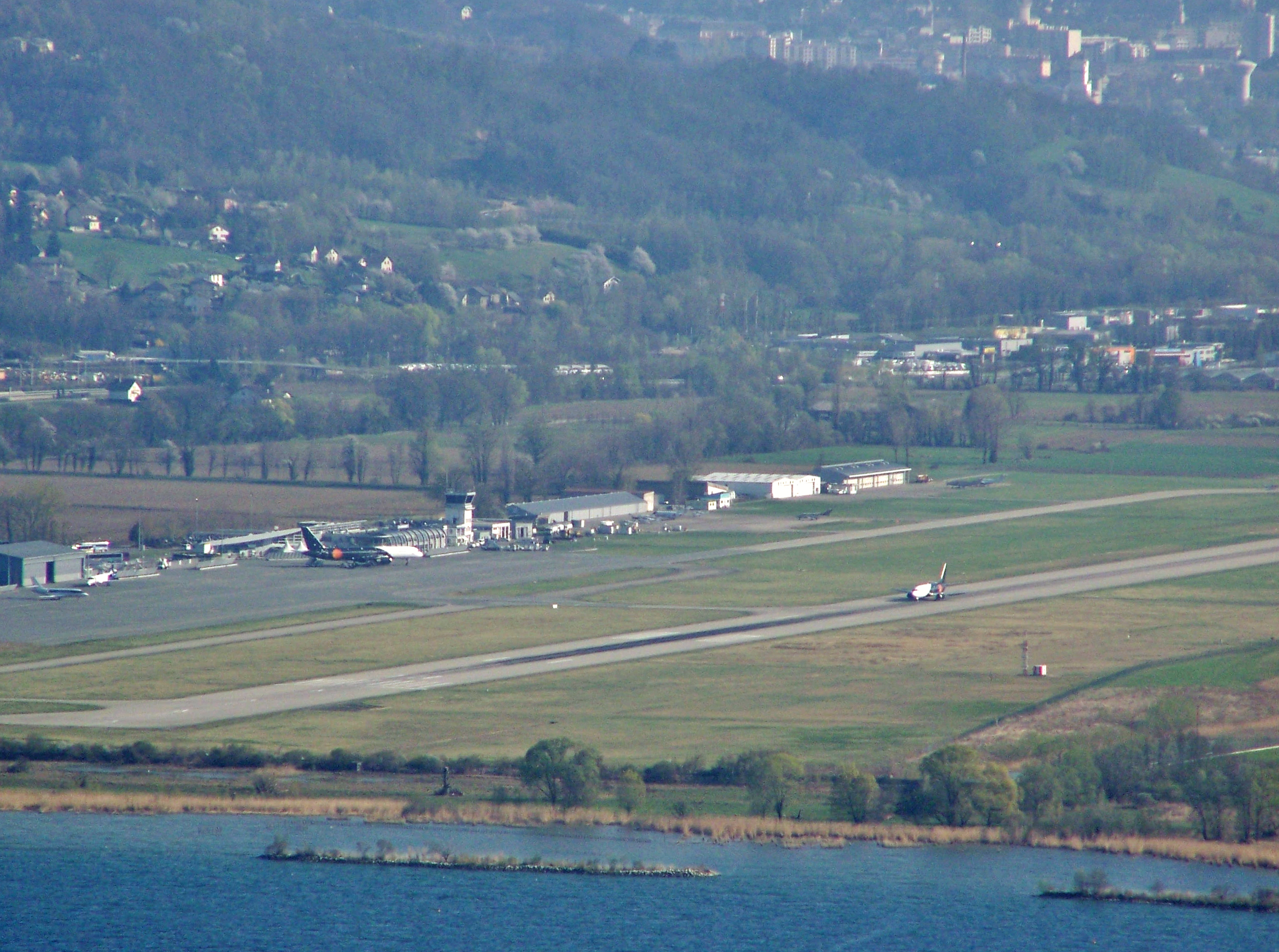 General sight of Chambéry - Savoie airport, close to the lac du Bourget lake, between Chambéry (background) and Aix-les-Bains in Savoie, France.